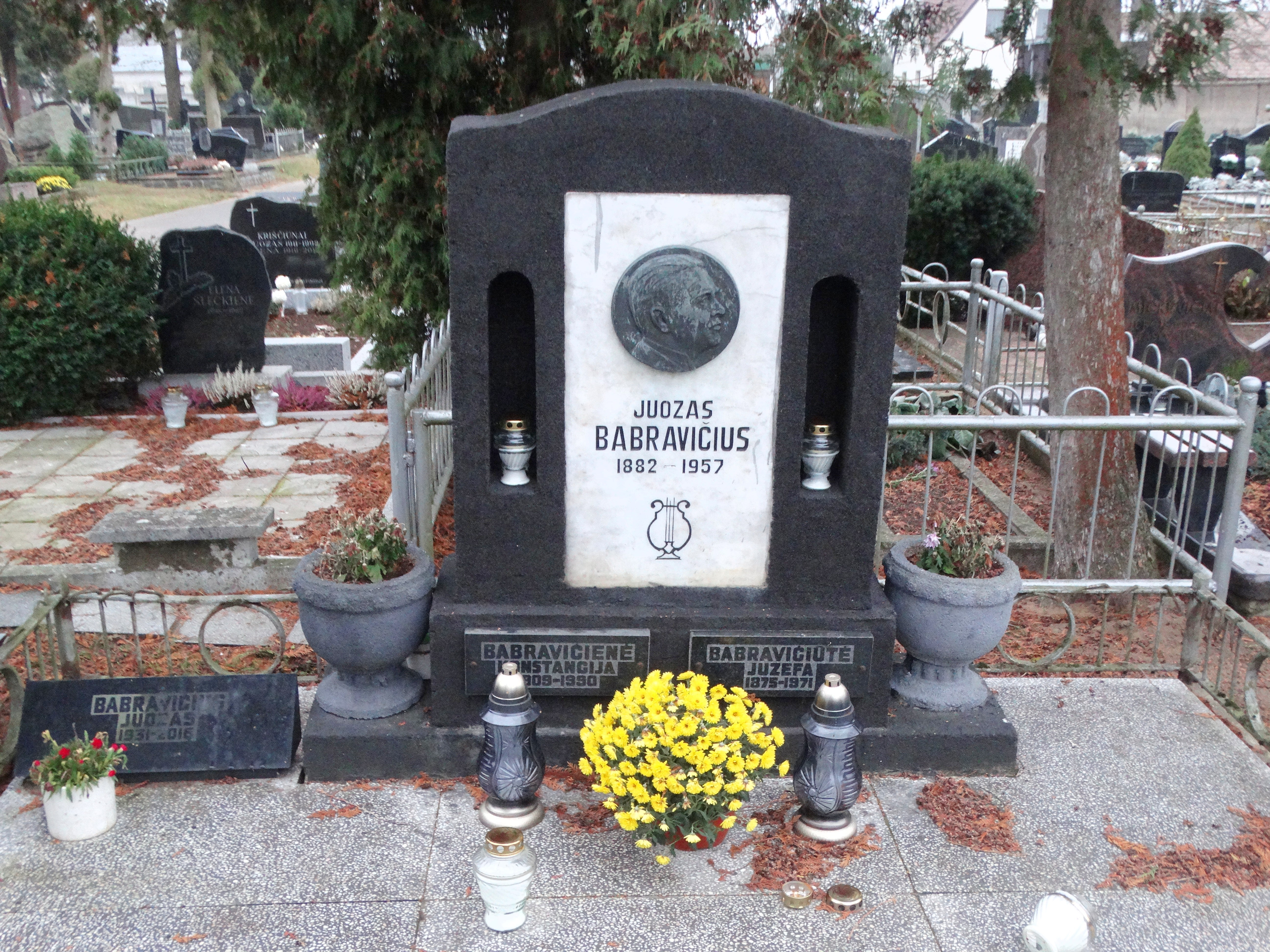 Tomb of Juozas Babravičius, cemetery in Panemunė, Kaunas, Lithuania